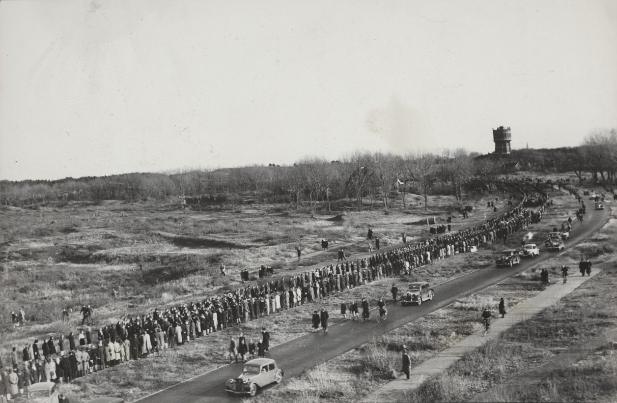 Thousands gathered along the funeral pathway to the Bloemendaal cemetery of honor to salute Hannie Schaft and other resistant fighters who fell for the Homeland.